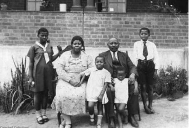 Mid 1930s John and Angelina Dube with l to r Nomagugu-Joan Lulu-James Sipho -Douglas Sobanto from First President: A Life of John Dube, Founding President of the ANC By Heather Hughes